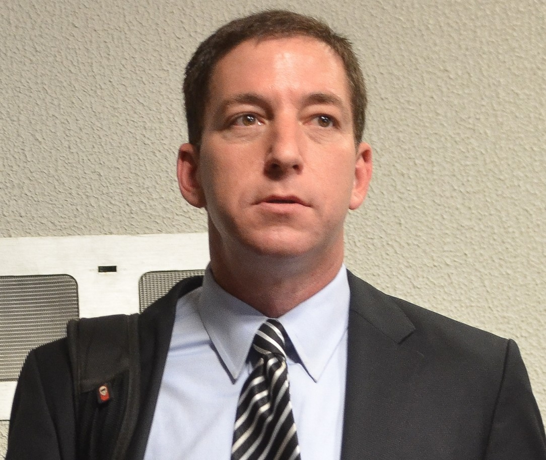 Brasília – The Espionage Parliamentary Inquiry Comission (CPI) hears journalist Glenn Greenwald and his partner, Brazilian David Miranda, on the accusations of espionage on behalf of the U.S. government towards Brazil. L/R: David Miranda and Glenn Greenwald.